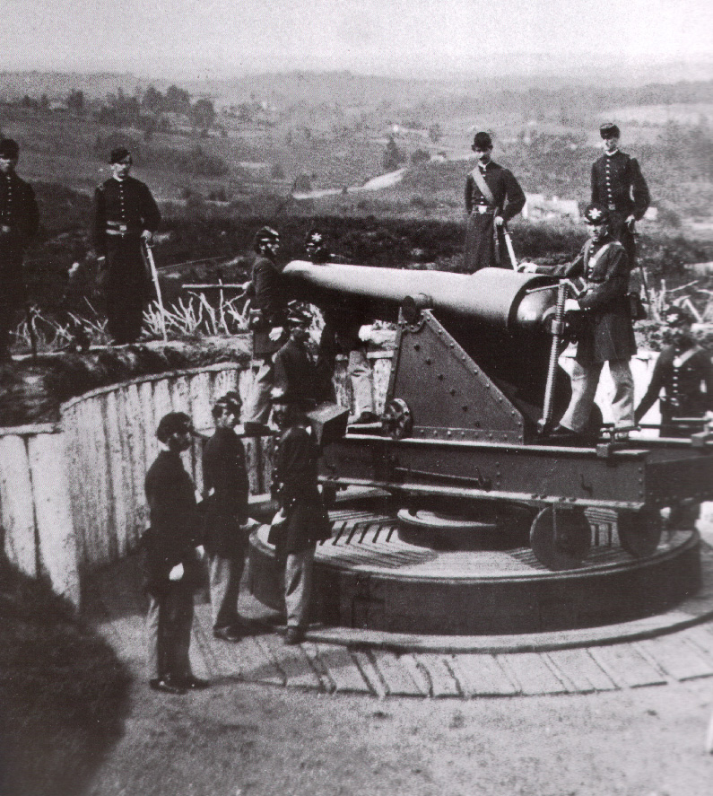 100 pounder (6.4 inch) Parrott rifle inside Fort Totten in the Defenses of Washington, DC